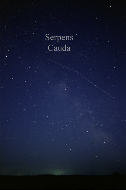 Photography of the constellation Serpens Cauda, the tail of the serpent